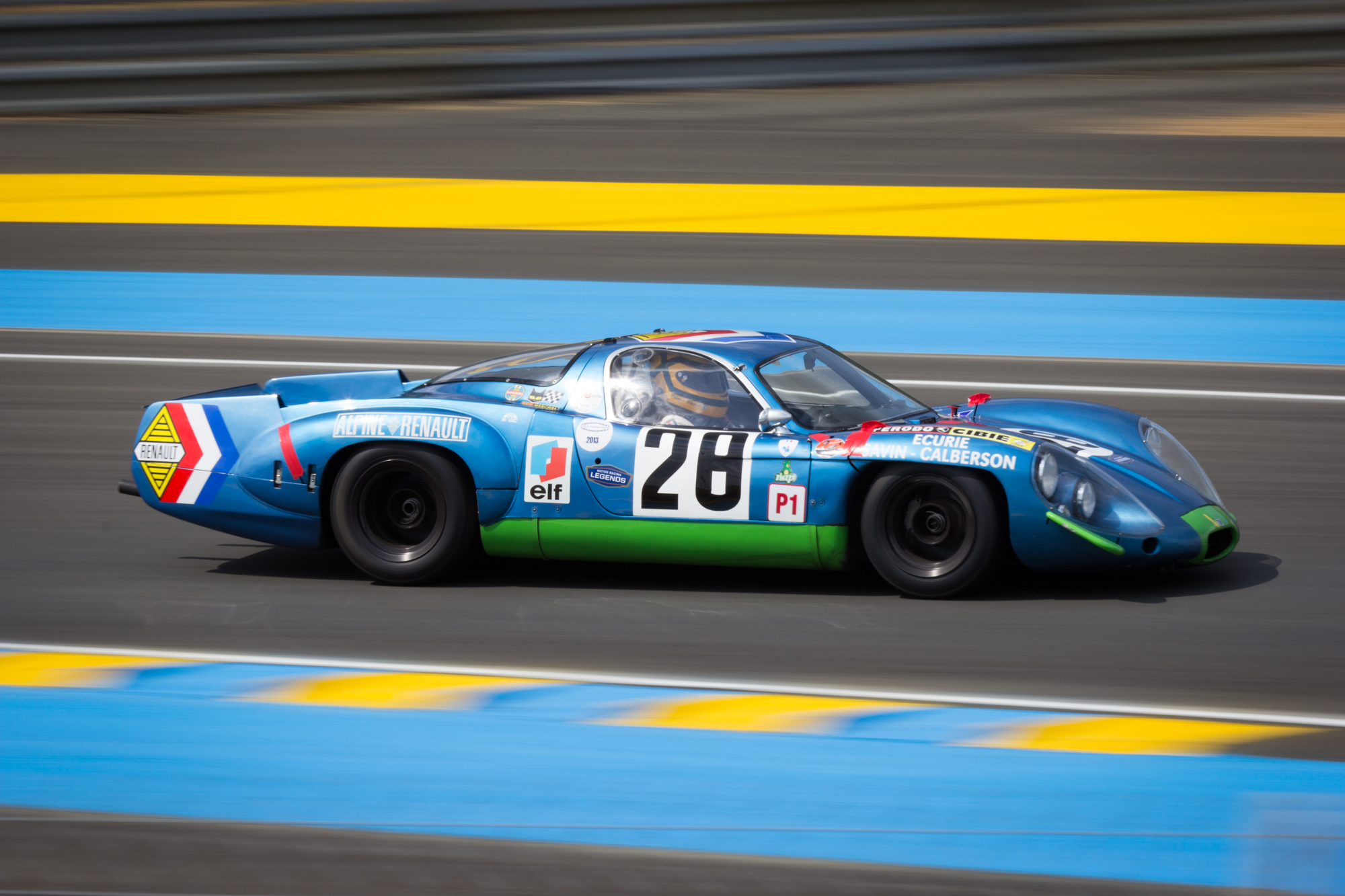 Le Mans Legend 2015 Drivers: Sylvain Stepak, Jean Luc Blanchemain